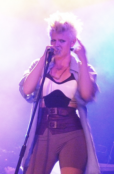 Robyn performing in Heaven nightclub, London, UK, on 17 June 2010.